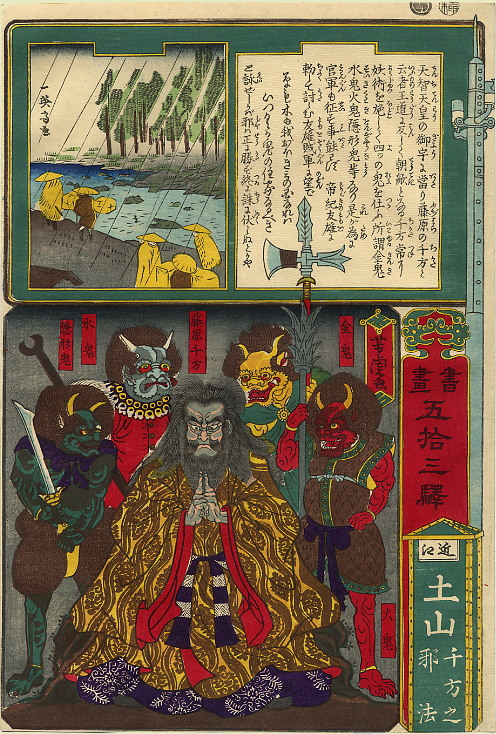 Fujiwara no chino, surrounded by his demon followers.